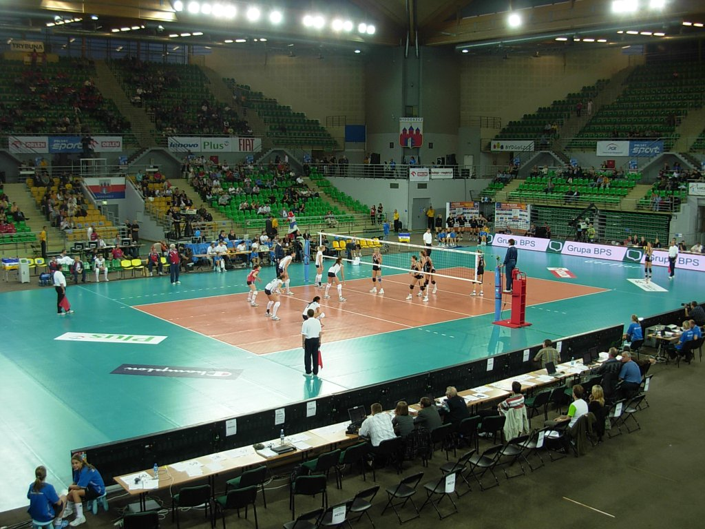 2009 Women's European Volleyball Championship in Poland